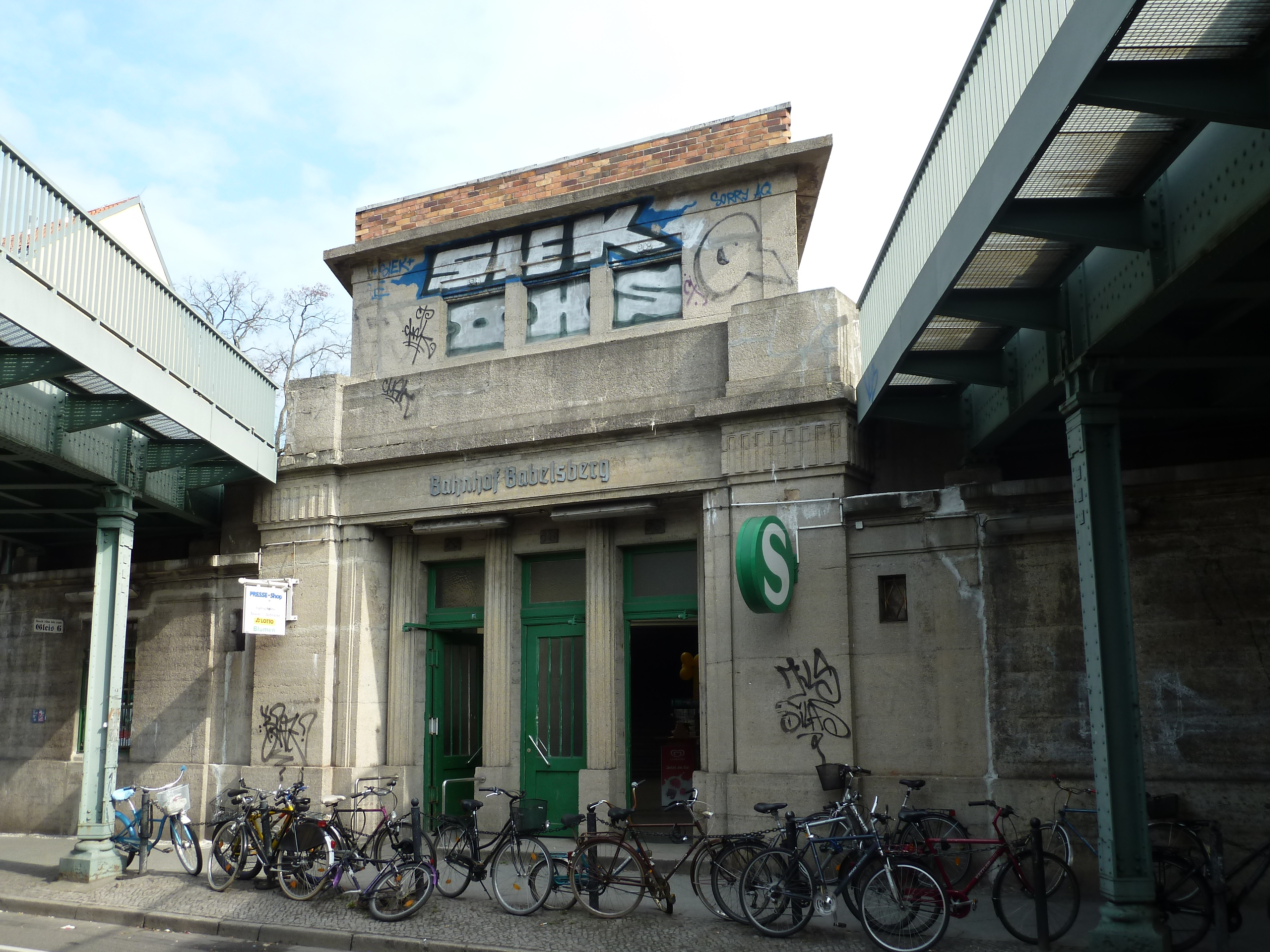 Babelsberg railway station, Western entrance gate, cultural heritage